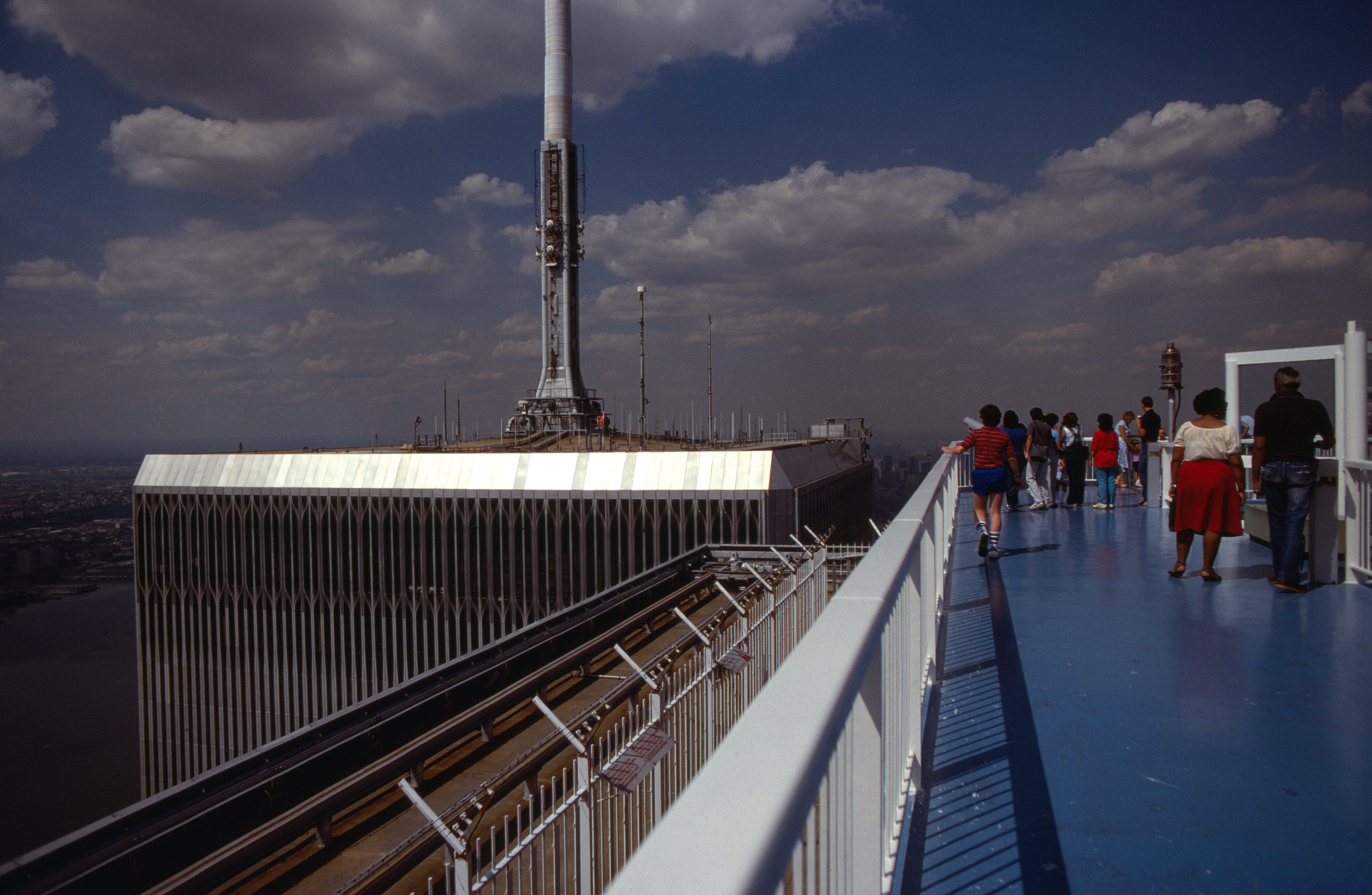 2 World Trade Center (South Tower) observation deck with an anti-suicide fence. Photographed on Kodachrome in 1984.